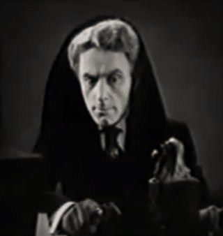 George Beranger in The Bat - cropped screenshot